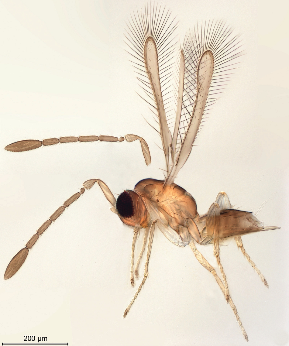 Arescon sp. A fairyfly wasp from Thailand.